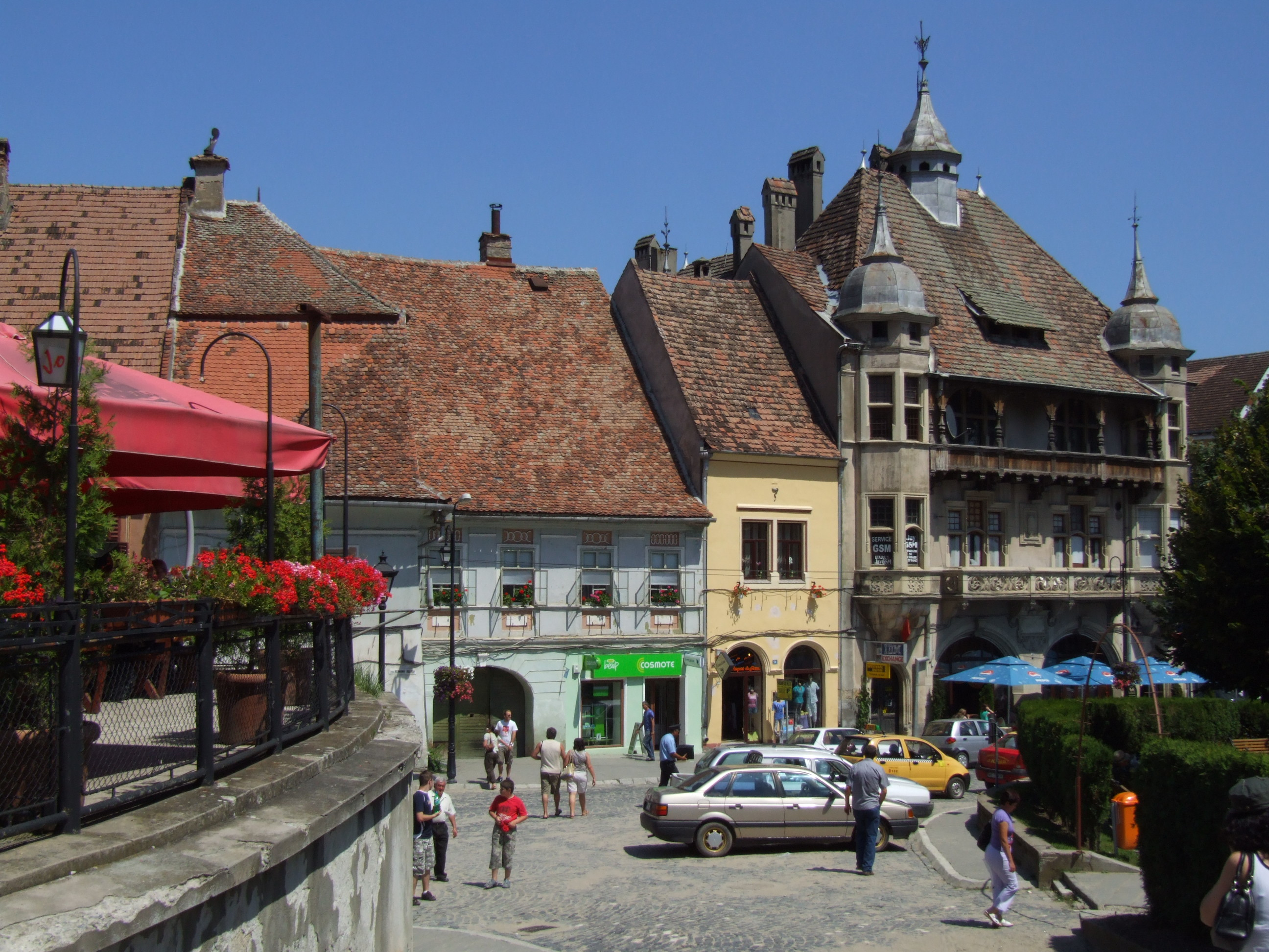 Sighişoara (Schäßburg, Segesvár) - old building